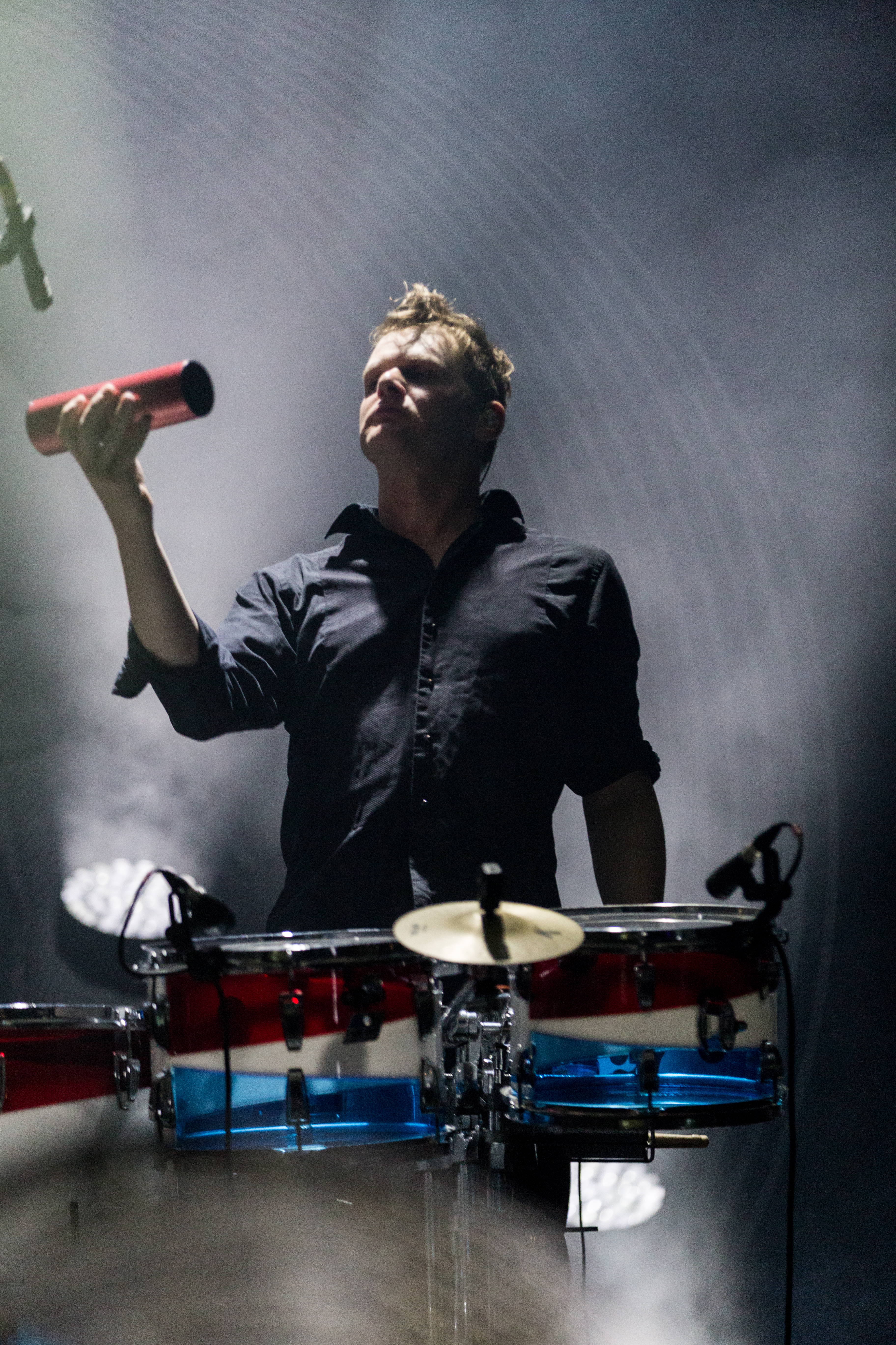 The British gothic rock band The Mission at the Wave-Gotik-Treffen 2017 in Leipzig/Germany (Venue Agra).